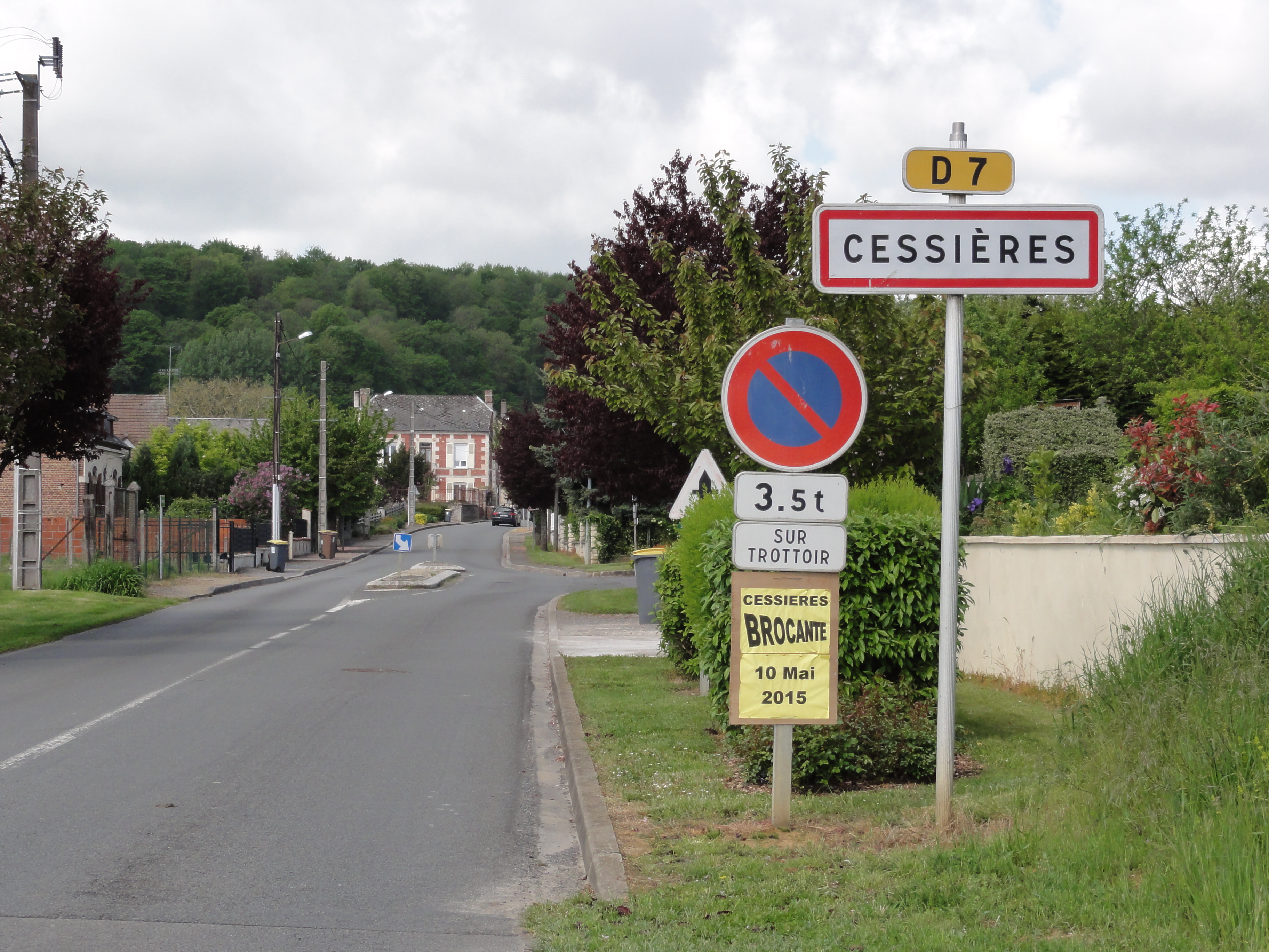 Cessières (Aisne) city limit sign